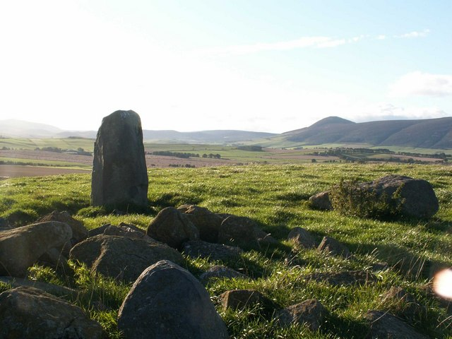 Ardlair Stone Circle Near to Kennethmont, Aberdeenshire